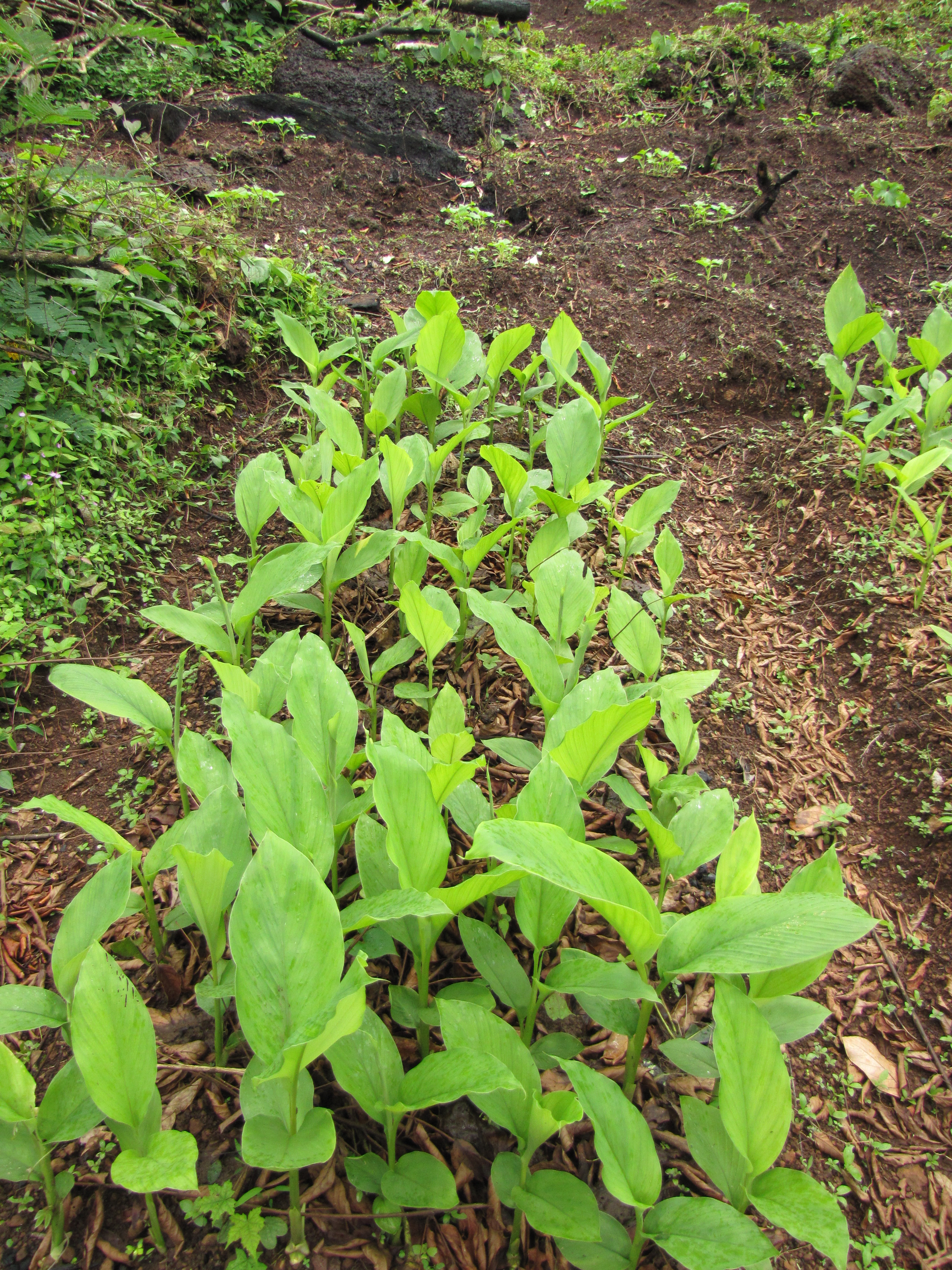 Curcuma longa plants in Koovery